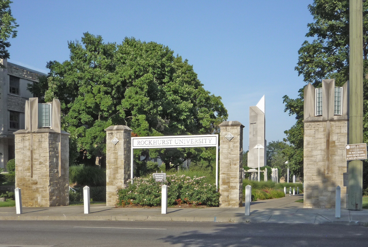 Rockhurst University, entrance at Troost Avenue, Kansas City, Missouri